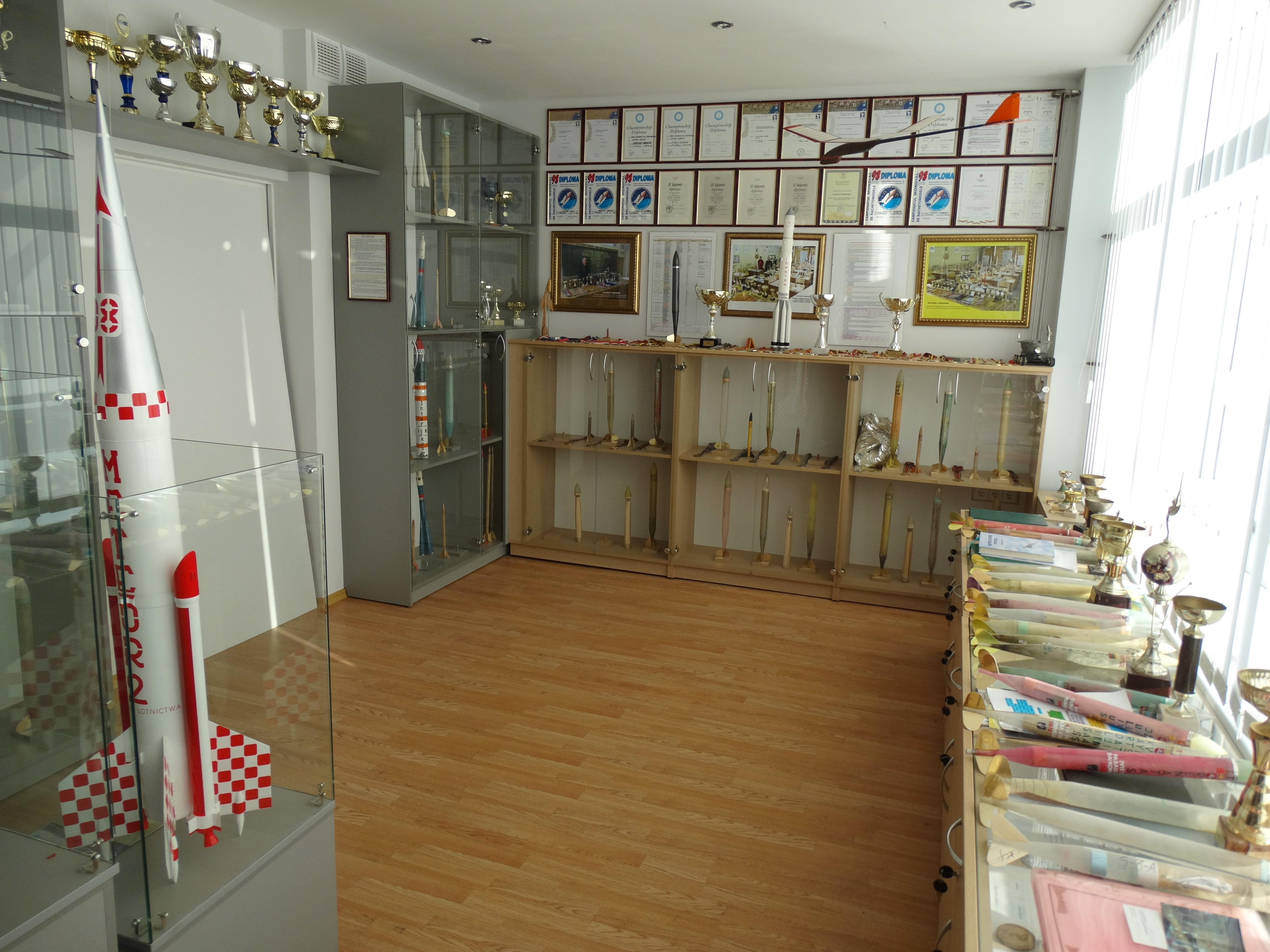 Space rocket modeling museum of Viktoras Karmonas, Radviliškis, Lithuania